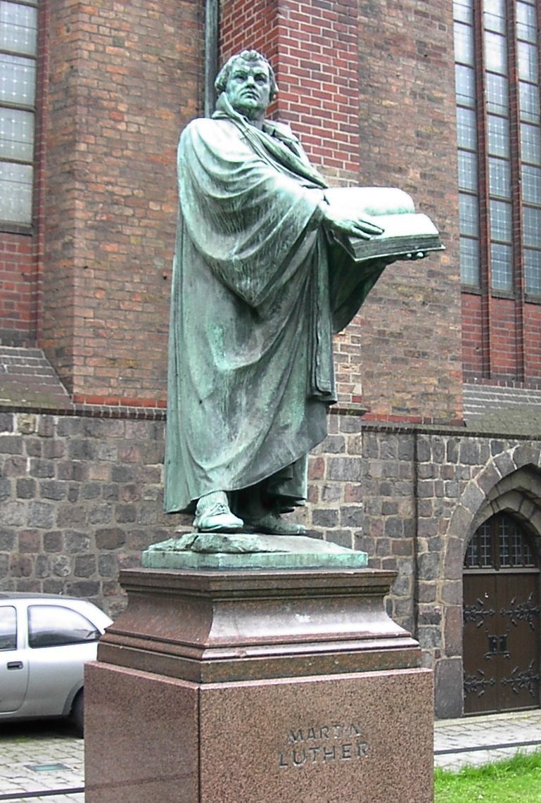 Photo by User:Adam Carr, May 2006